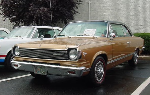 1967 Rambler American Rogue (this was the top of the line model) a compact-sized two-door hardtop (coupe with no B-pillar) made by American Motors Corporation (AMC). Original factory finish: Sungold Amber Metallic (paint code - P37A) with the optional black vinyl roof cover. This car has AMC's optional wire wheel covers, with period correct red-stripe performance-type tires. This picture taken at the AMCRC (AMC Rambler Club) car show that was held in Somerset, New Jersey, during August 8 and 9, 2003.